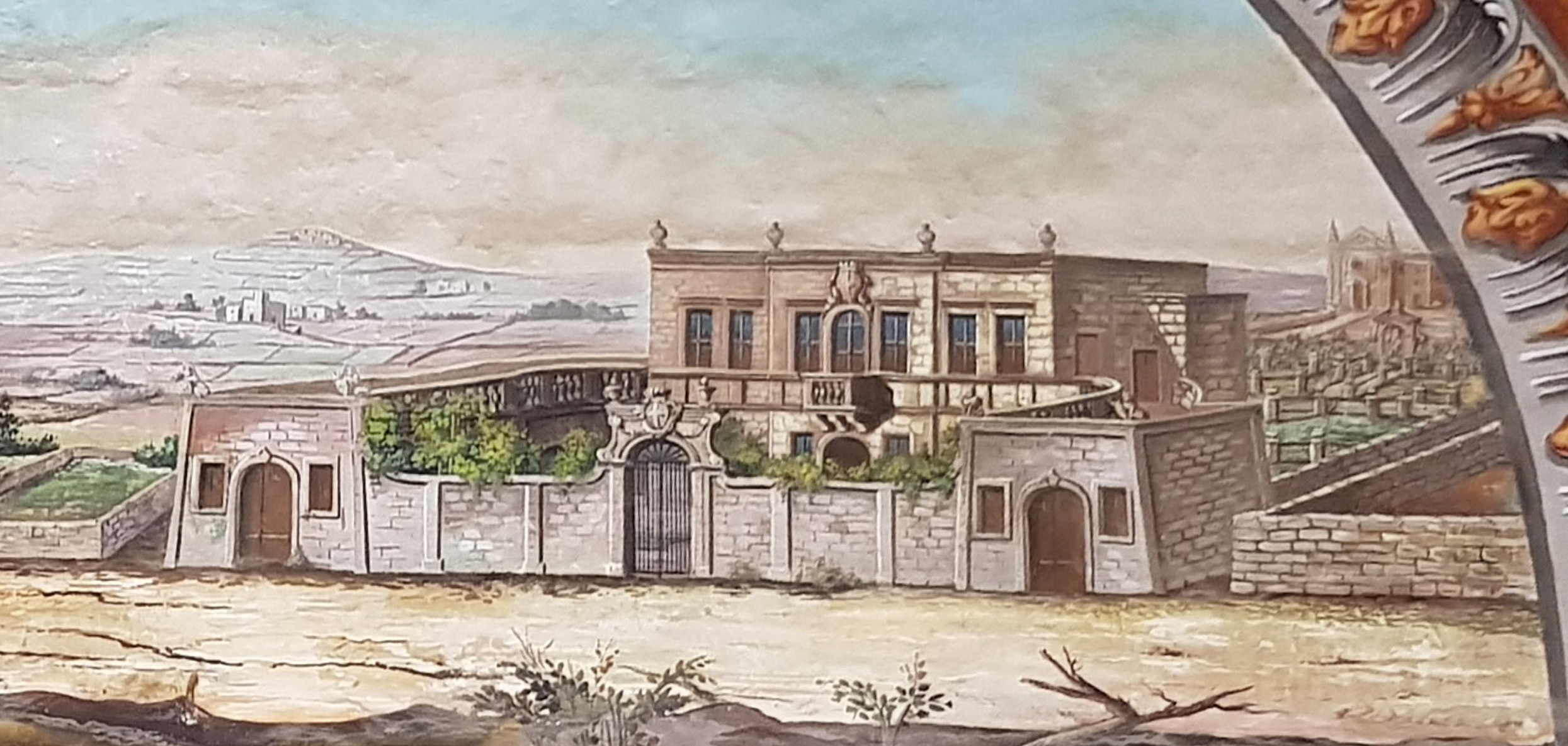 Detail from a fresco inside the Grandmaster's Palace, Valletta, Malta, depicting Casa Leoni and the Old Parish Church of St. Venera in Santa Venera, Malta This media is about Maltese cultural property with inventory number 01134.